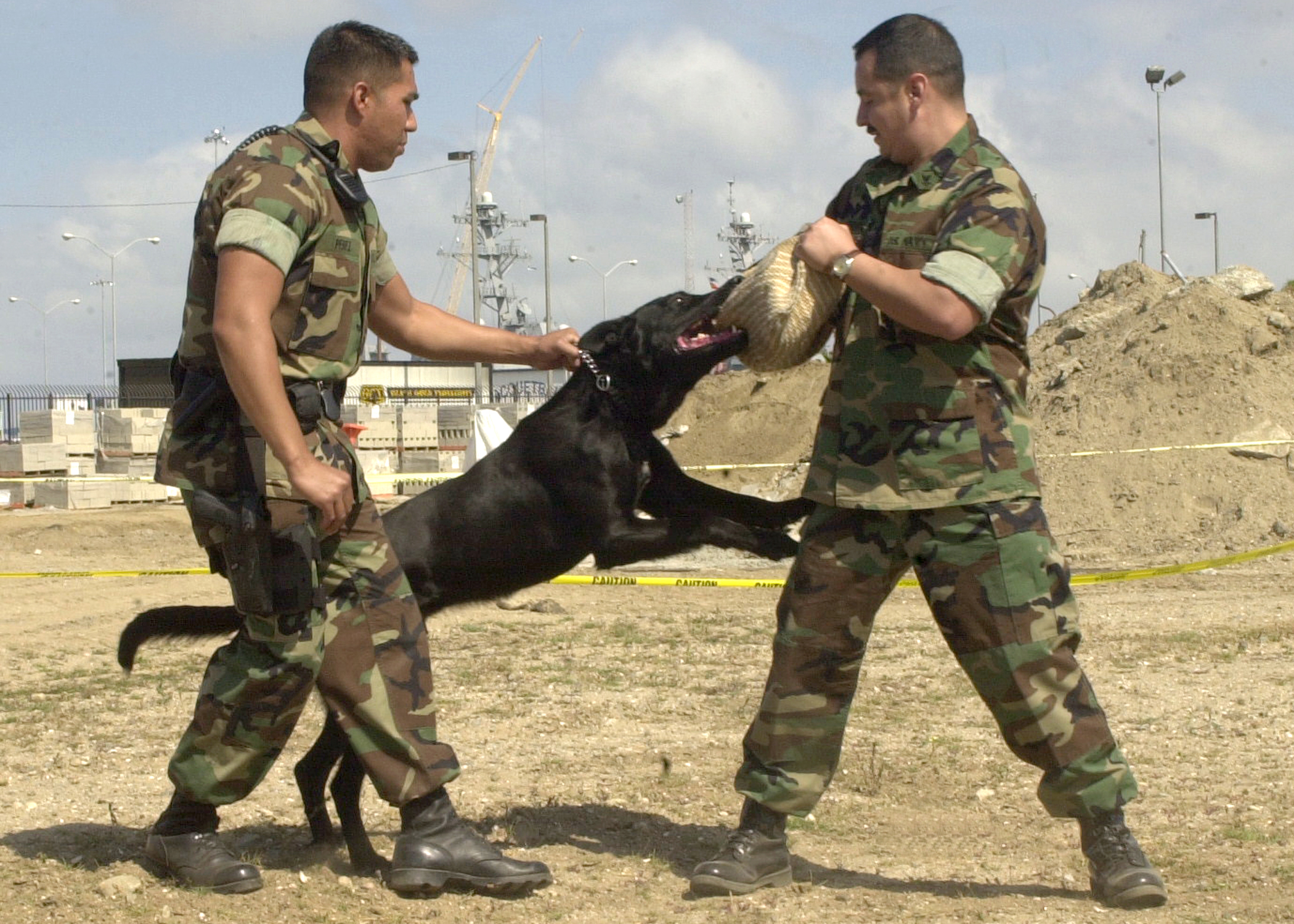 San Diego, Calif. (May 18, 2004) - Master-at-Arms 2nd Class Jaime Perez, of Los Angeles, Calif., holds Military Working Dog (MWD) Barry, a three-year-old Belgian Malinois while biting the well protected hand of Master-at-Arms 2nd Class Clemente Cisneros, during a recent training session at the San Diego Naval Base dog kennel. The MWDs are used as detectors because of their well-developed senses. They can detect explosives, narcotics and track a lost or hidden person or object. The dogs can also be used to effectively detain a suspect. U.S. Navy photo by Photographer’s Mate 2nd Class Johansen Laurel (RELEASED)